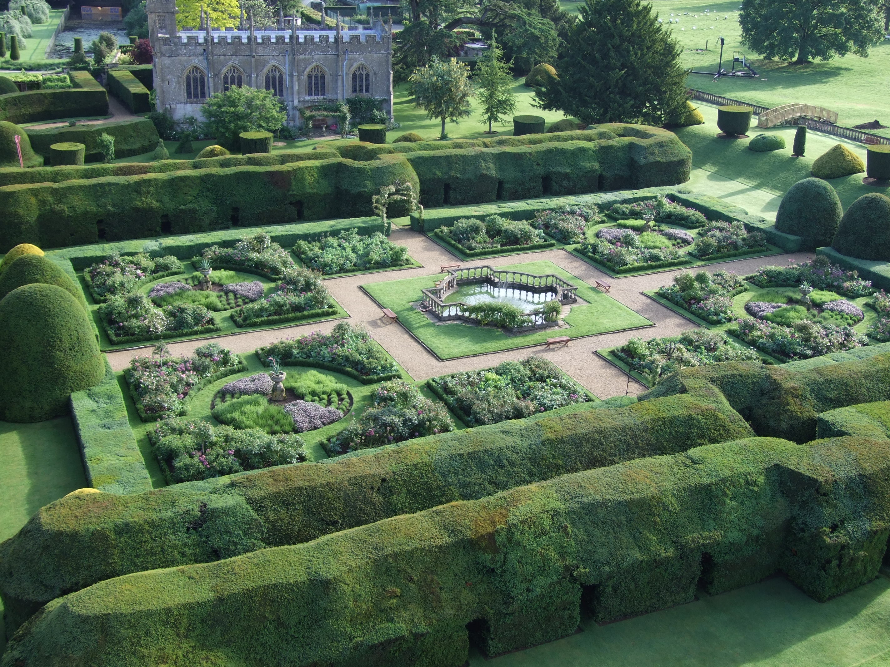 Sudeley Castle, Queen's Garden